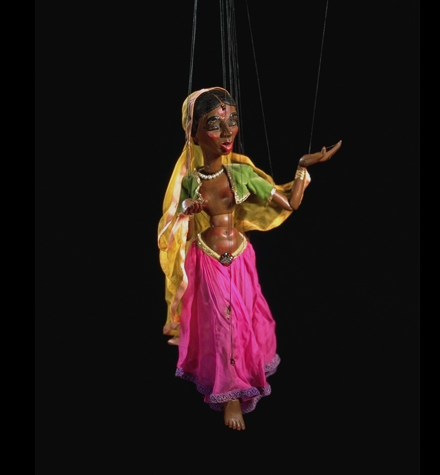 Harry Tozer's puppet